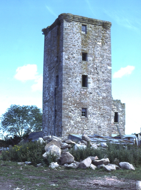 Blervie Castle. The tower is the remnant of the 16th century castle, property of the Dunbars. It is very similar to nearby Burgie Castle (NJ0959)